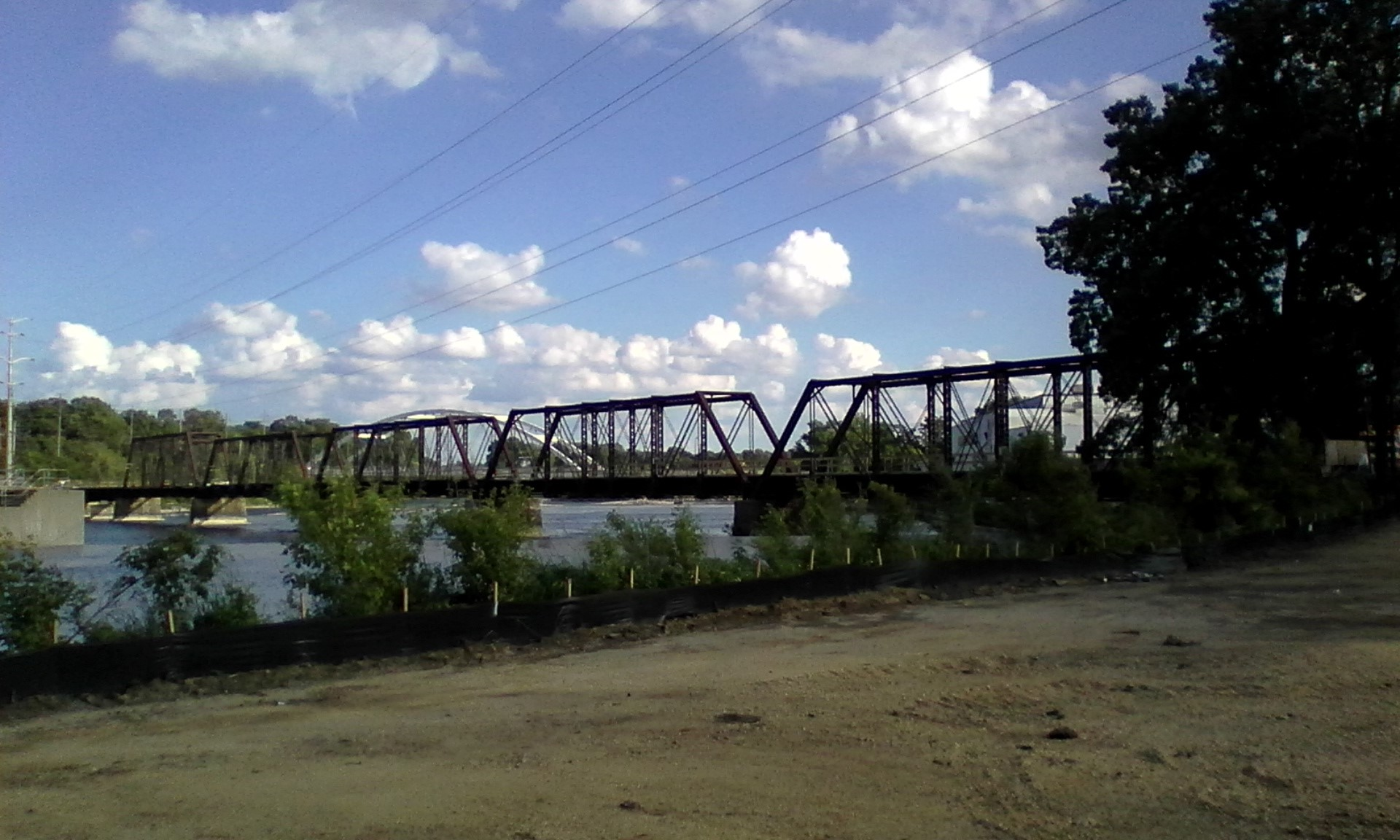 Abandoned Illinois Railway (former-CB&Q) railroad bridge over the Rock River in Rockford, IL. Now being converted to a trail.